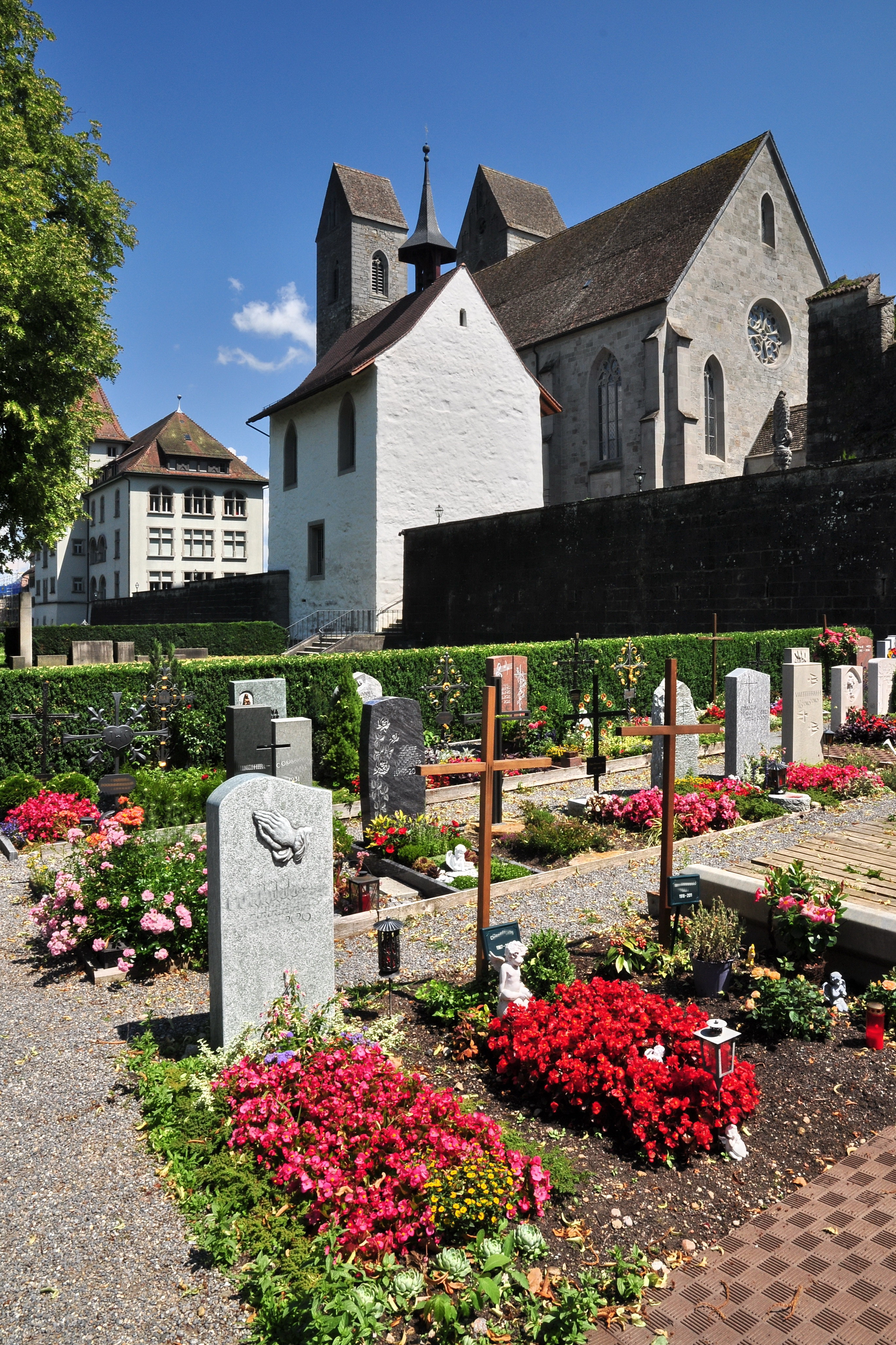 Liebfrauenkapelle (St. Mary's Chapel) and St. John's Church, as seen from St. John's cemetery, Primarschulhaus Herrenberg in the background.